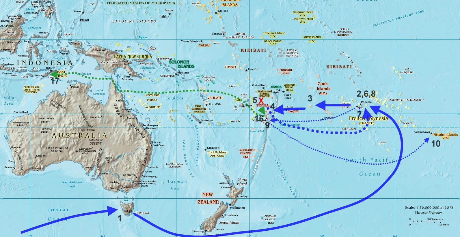 Travel of Bounty and small boat after mutiny. Draft painting, compiled by Travus (talk · contribs). Data key: Pre-mutiny travel • 1) 1788-08-21: Tasmania, Adventure Bay • 2) 1788-10-26: Taiti, first arrival; • 1789-04-04: leaving for England • 3) Palmerston • 4) Tofua • 5) 1789-04-28: mutiny Christian's travel with Bounty to Pitcairn Is. • 6) Tubai, then 1789-07-06: Taiti, second arrival. • 7) 1789-07-16; Tubai • 8) 1789-09-22: Taiti, third arrival. • 1789-09-23: final leaving • 9) 1789-11-15: Tongatabu • 10) 1790-01-15: Pitcairn. 1790-01-23: burning Bounty Blight party's boat travel • 16) Tonga • 17) 1789-06-14: Timor